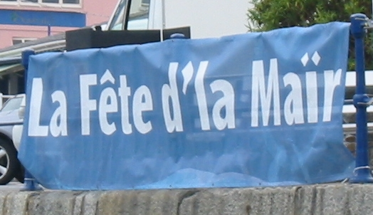 Fête d'la Maïr = Festival of the Sea (in Guernésiais): sign in Guernsey